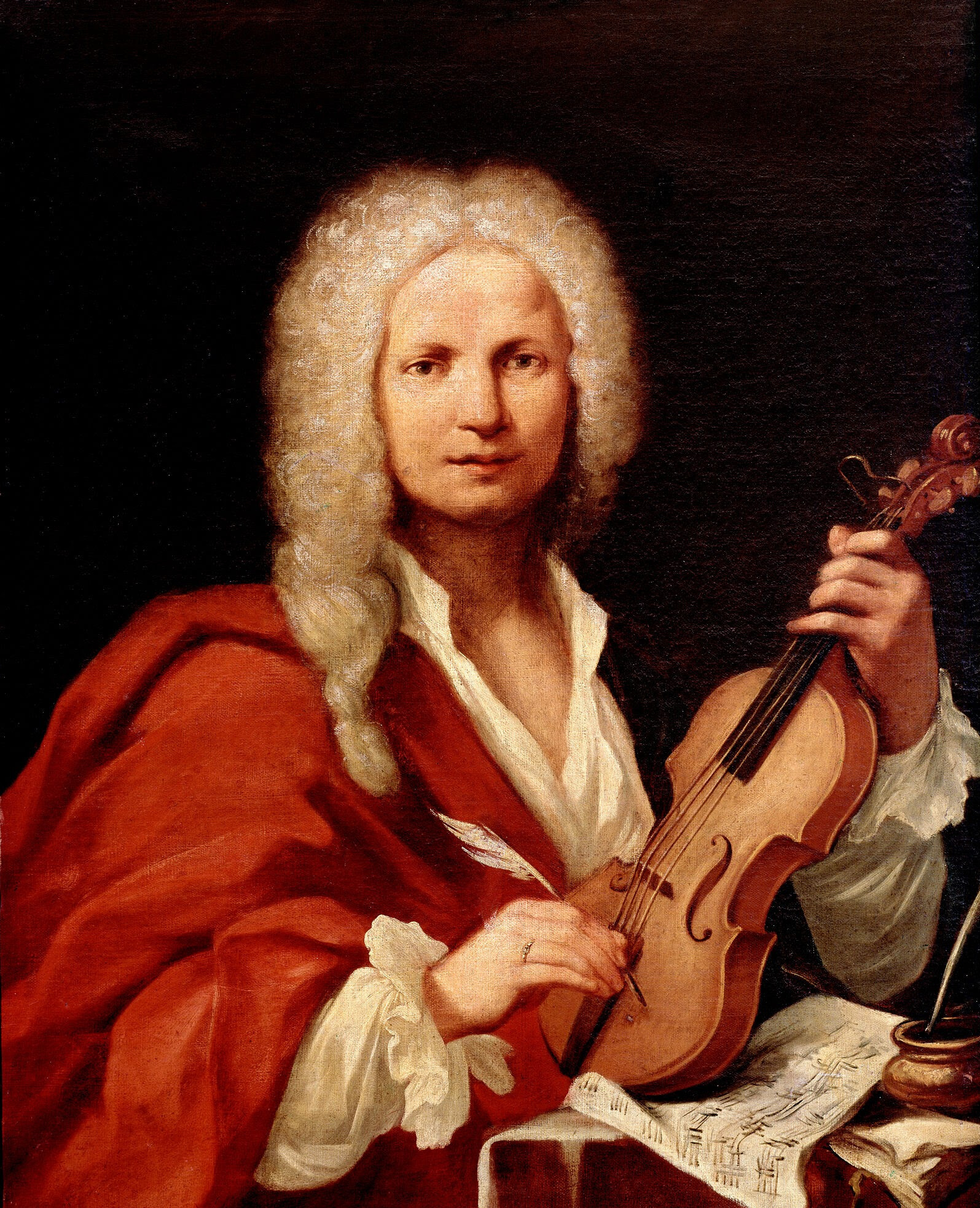 "An anonymous portrait in oils in the Museo Internazionale e Biblioteca della Musica di Bologna is generally believed to be of Vivaldi and may be linked to the Morellon La Cave engraving, which appears to be a modified mirror reflection of it. It is striking how the engraving and the painting 'secularize' Vivaldi: they contain no hint of his identity as a priest. (The fashionable, though slightly informal, dress and self-confident attitude of the composer resemble very closely those of Telemann in the well-known engraving by Georg Lichtensteger.) Ghezzi's sketch likewise shows Vivaldi in a non-clerical black stock as opposed to the white clerical stock and still wearing a wig. (Two years later, in the anno santo of 1725, Innocent XIII was to ban the wearing of wigs by priests.) There is disagreement over whether the hint of red showing in front of the centre of the composer's wig in the painting is a sly reference to his famous hair-colour or simply an unpainted part of the canvas. Whatever the case, it is not out of place to observe that, contrary to the belief of many modern illustrators, Vivaldi's wigs were never coloured red." Michael Talbot, The Vivaldi Compendium (2011), p. 148. The proposition that the painting actually depicts Antonio Vivaldi has been questioned by some sources (e.g. by Groves dictionary).